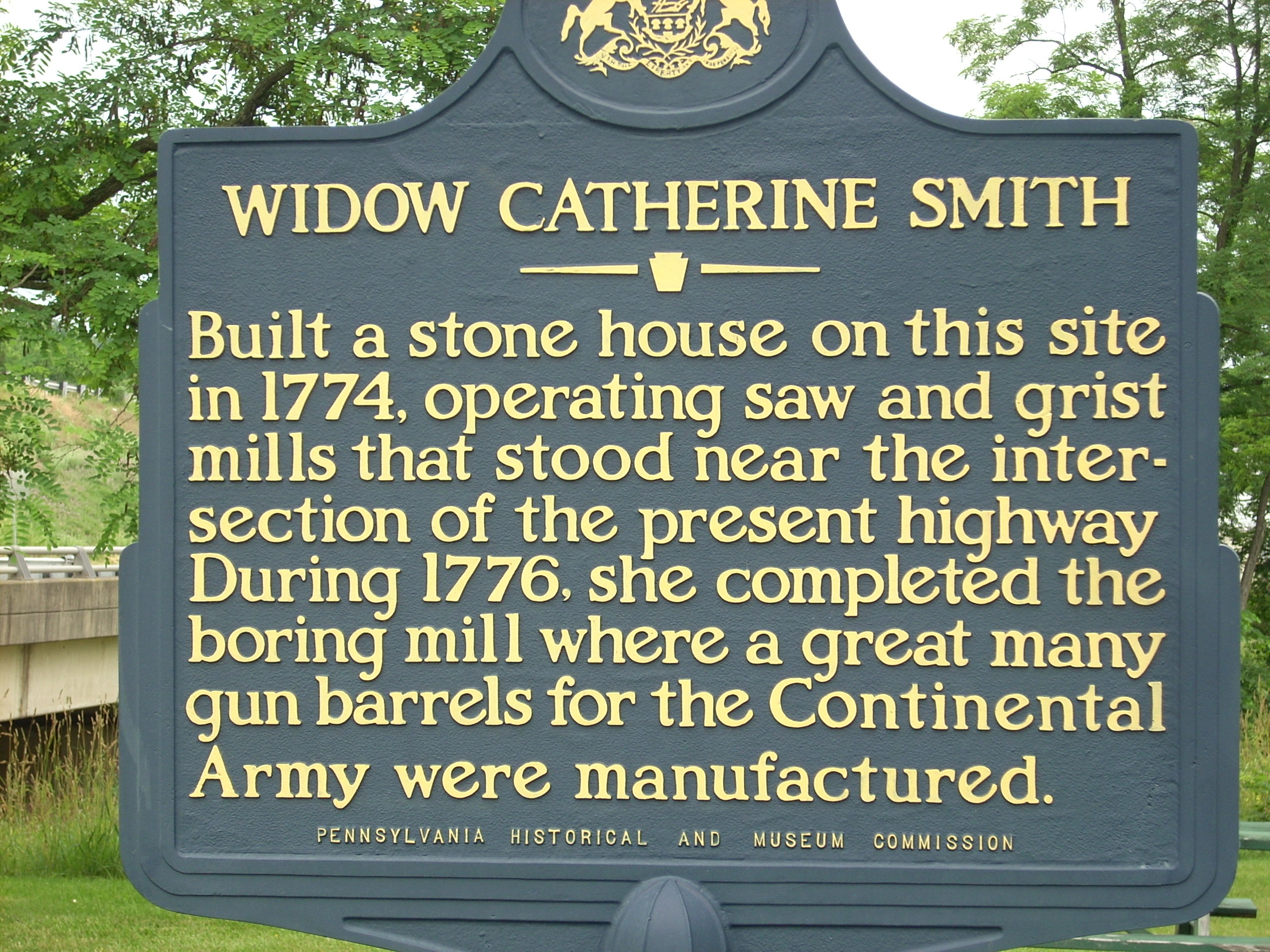 A historic marker for Widow Catherine Smith in the village of White Deer on White Deer Creek in White Deer Township, Union County, Pennsylvania.